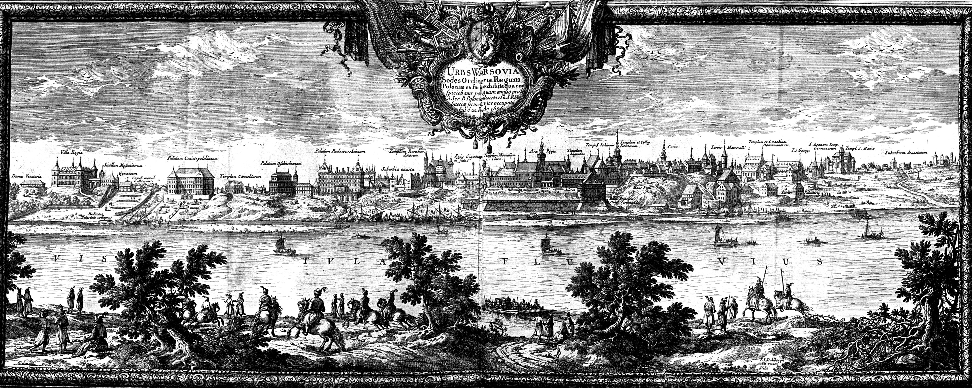 Warsaw in 1656